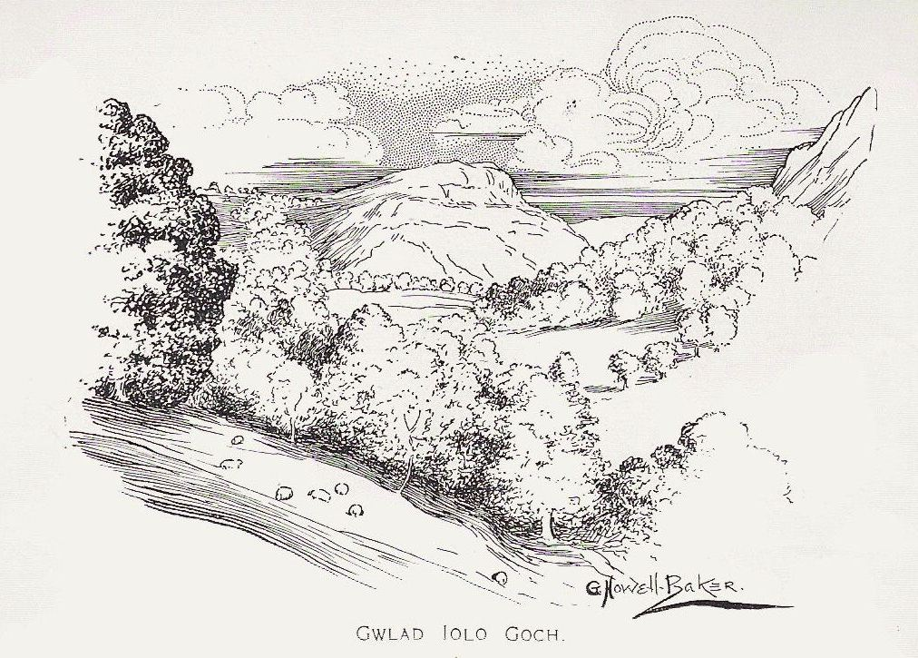 Frontispiece of Gwaith Iolo Goch (Llanuwchllyn, 1915), an edition of the poetry of the medieval Welsh bard Iolo Goch, edited by T. Mathews. The drawing by G. Howell Baker depicts "the land of Iolo Goch" ("Gwlad Iolo Goch"), in Denbighshire, Wales.